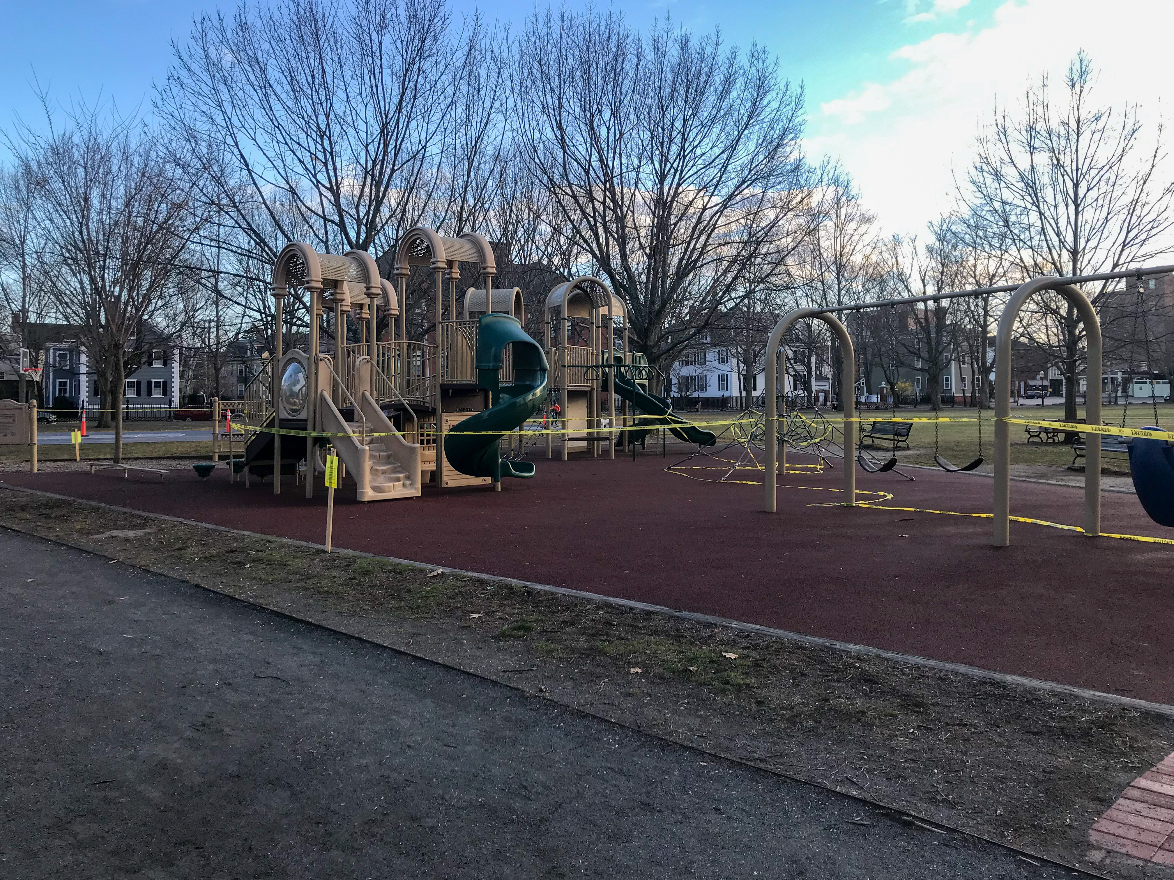 Playground closed off as a health measure to prevent coronavirus